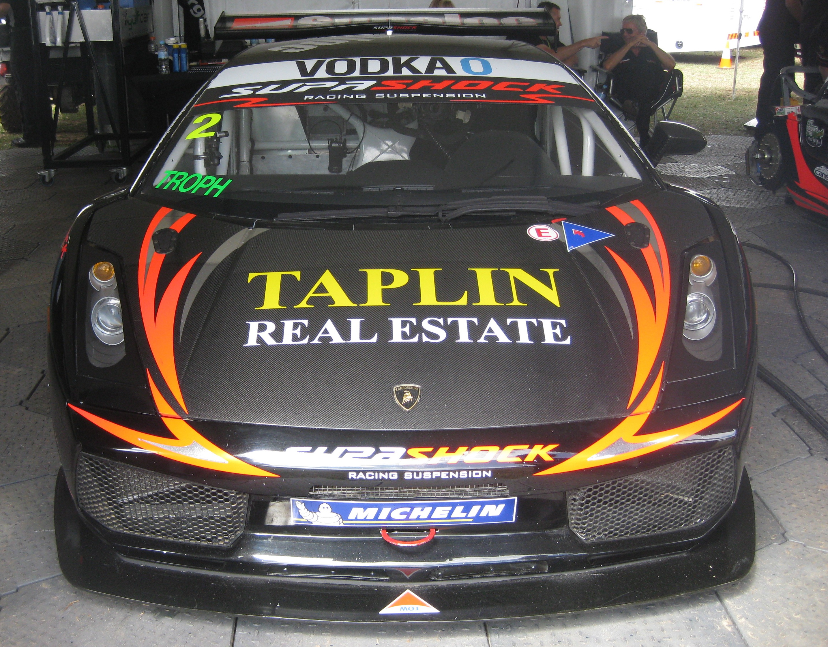 The Lamborghini Gallardo of Andrew Taplin at the Adelaide round of the 2012 Australian GT Championship